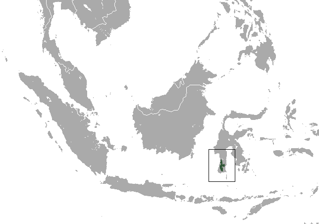 Moor Macaque (Macaca maura) range